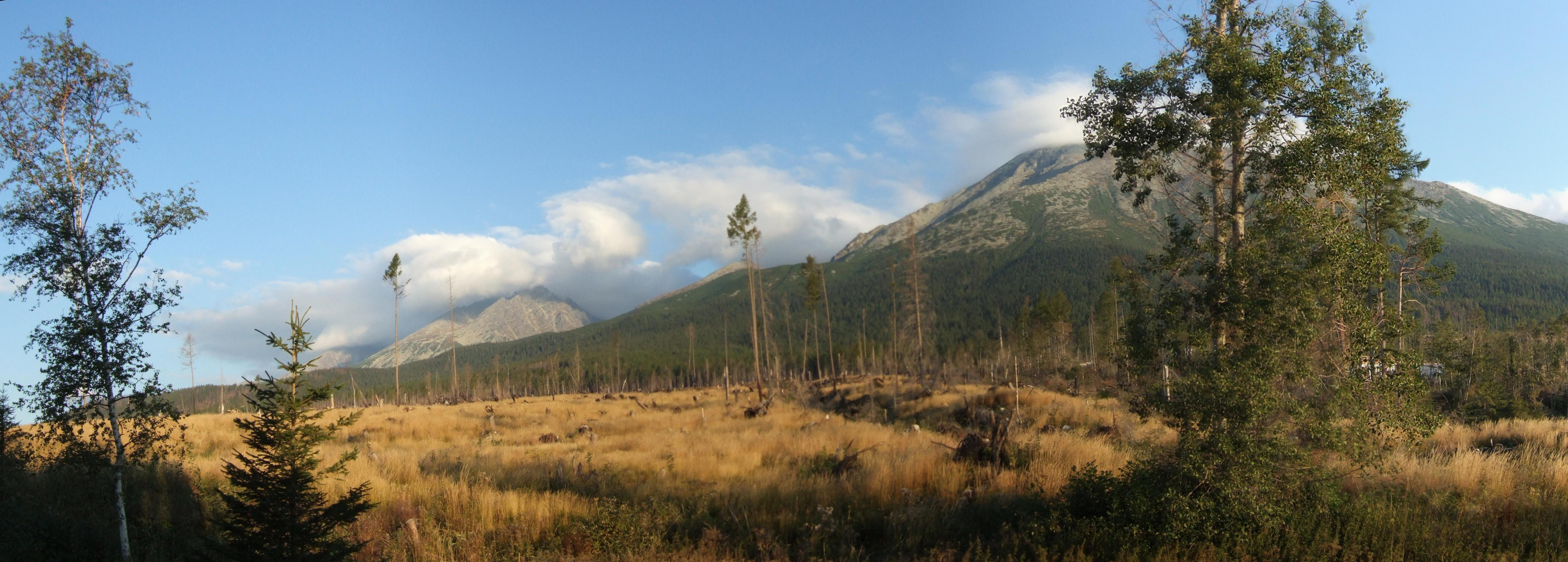 View of Tatras mountains from northwest boundary of Stary Smokovec. The big peak to the right is Slavkovsky stit at 2452 m.